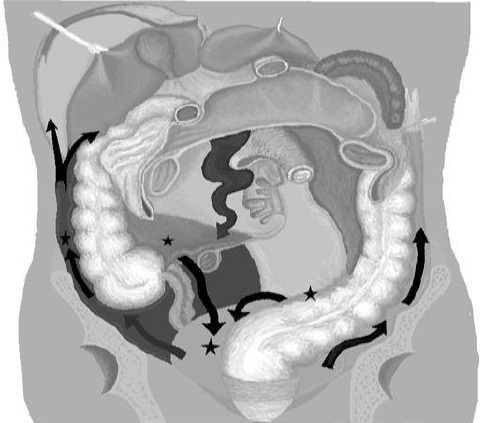 Pathways of ascites